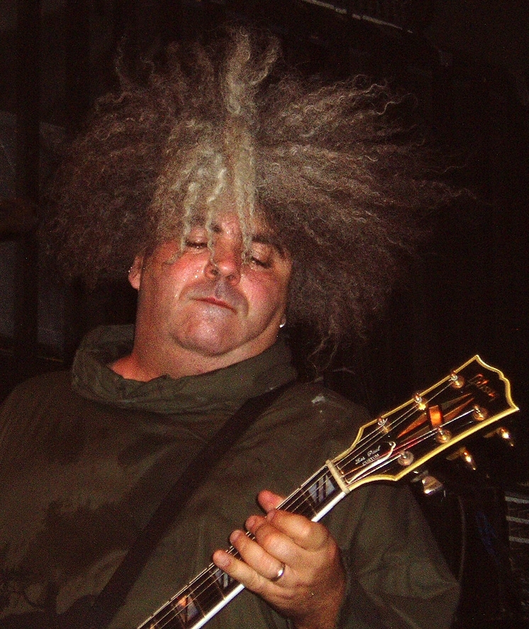 Buzz Osborne performing with Melvins in 2006.